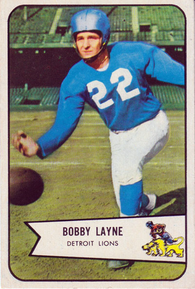 Former National Football League quarterback Bobby Layne illustrated on a 1954 Bowman Gum football card with the Detroit Lions